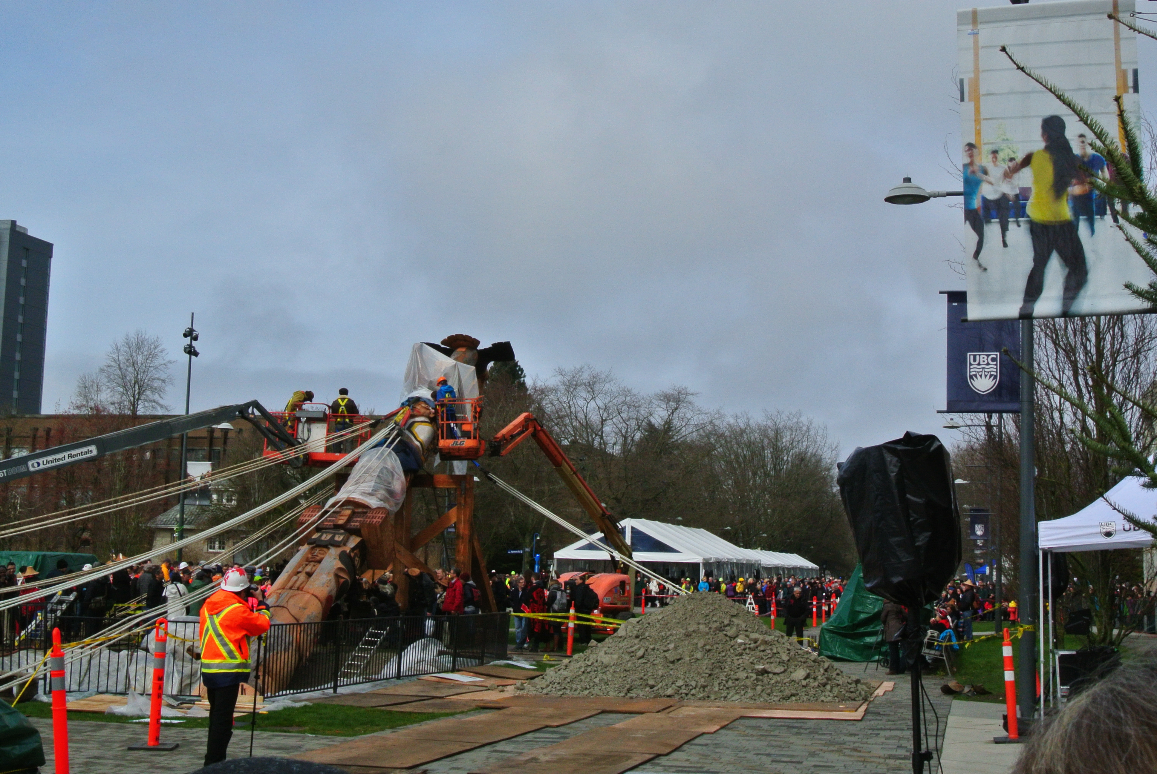 Raising of the Reconciliation Pole by 7idansuu (Edenshaw), carver James Hart, at the University of British Columbia.